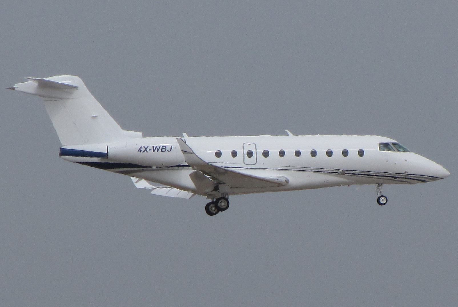 Gulfstream Aerospace G250